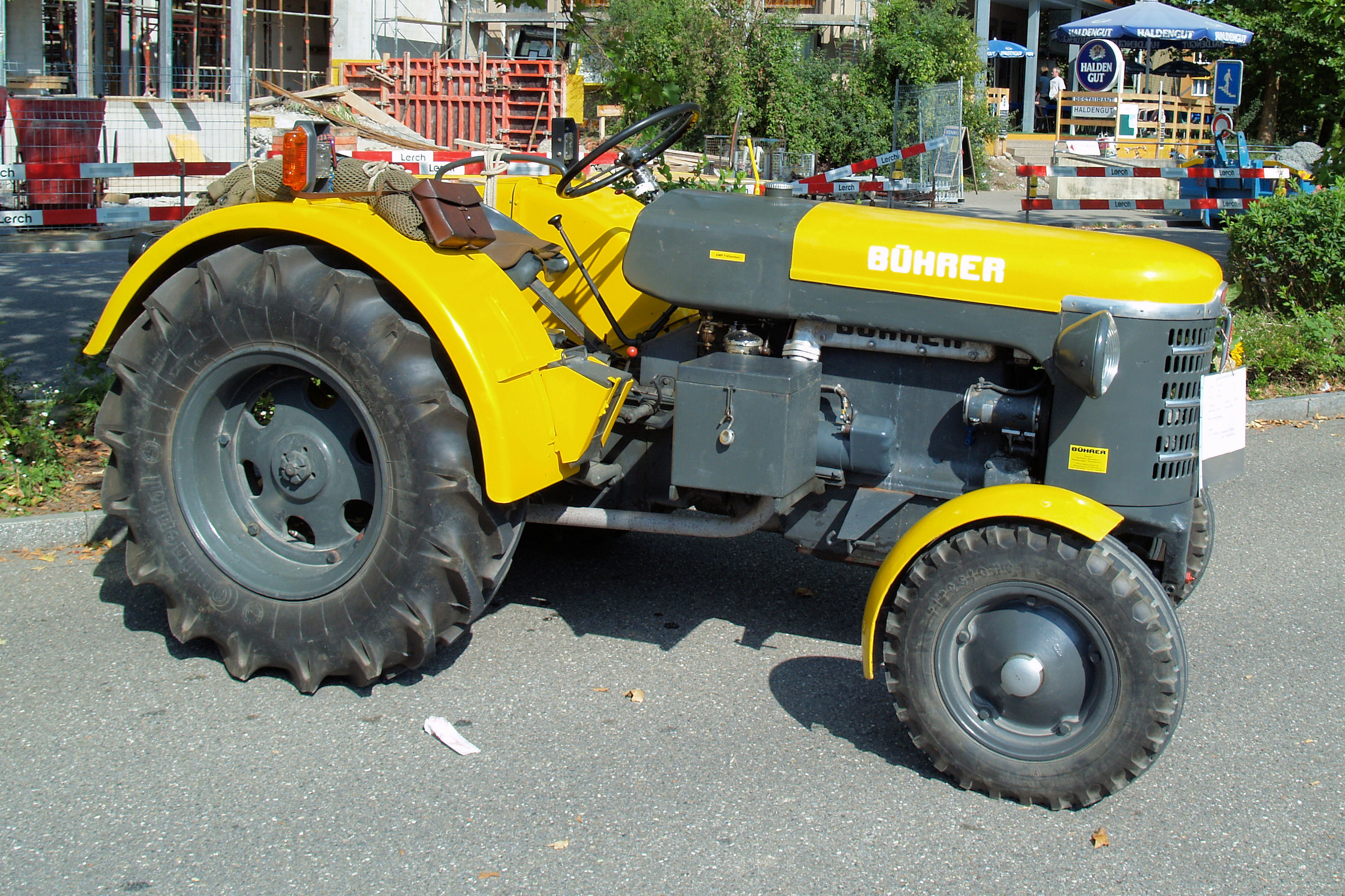 Tractor Bührer DD4, constructed for Swiss Army